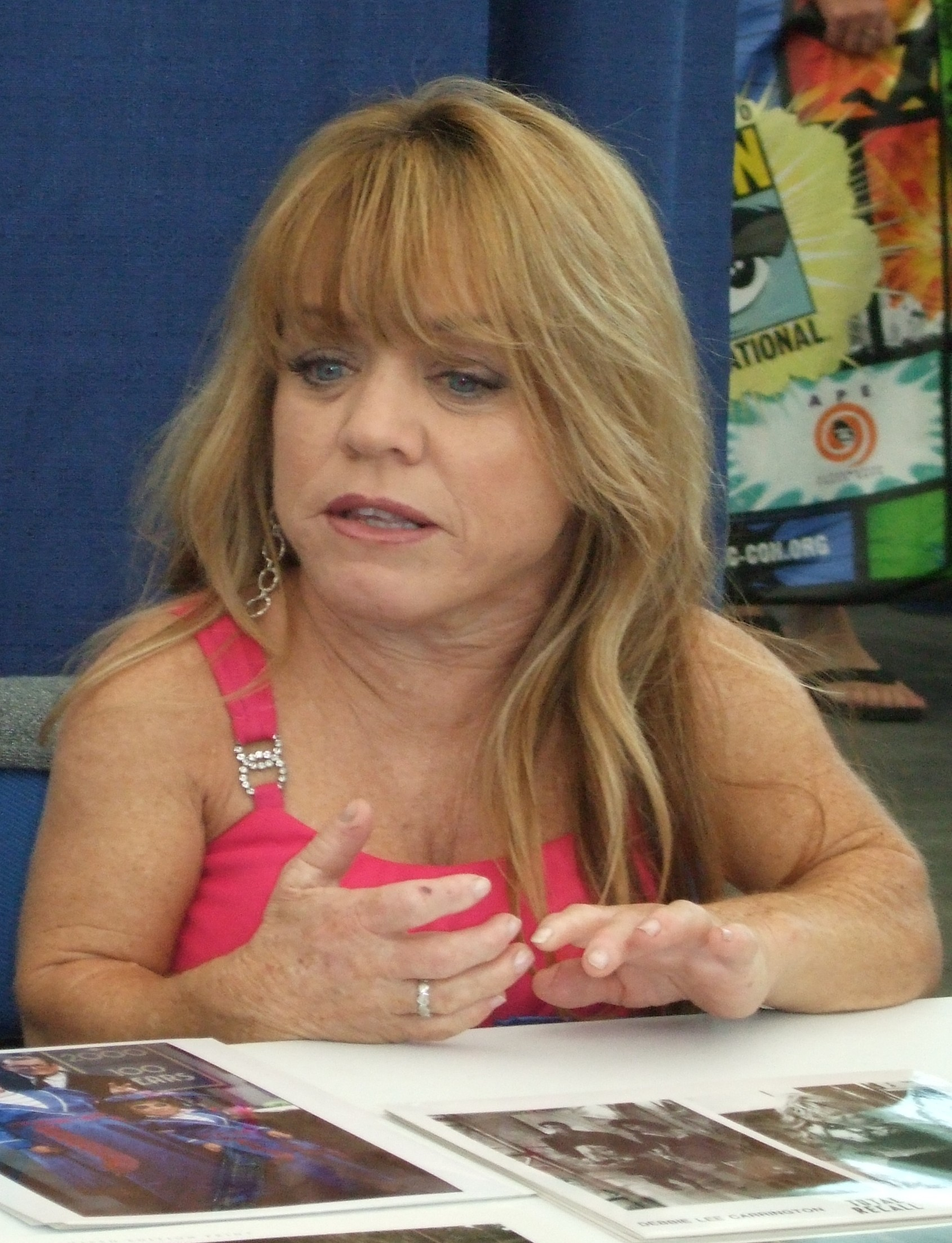 Comic Con 2010